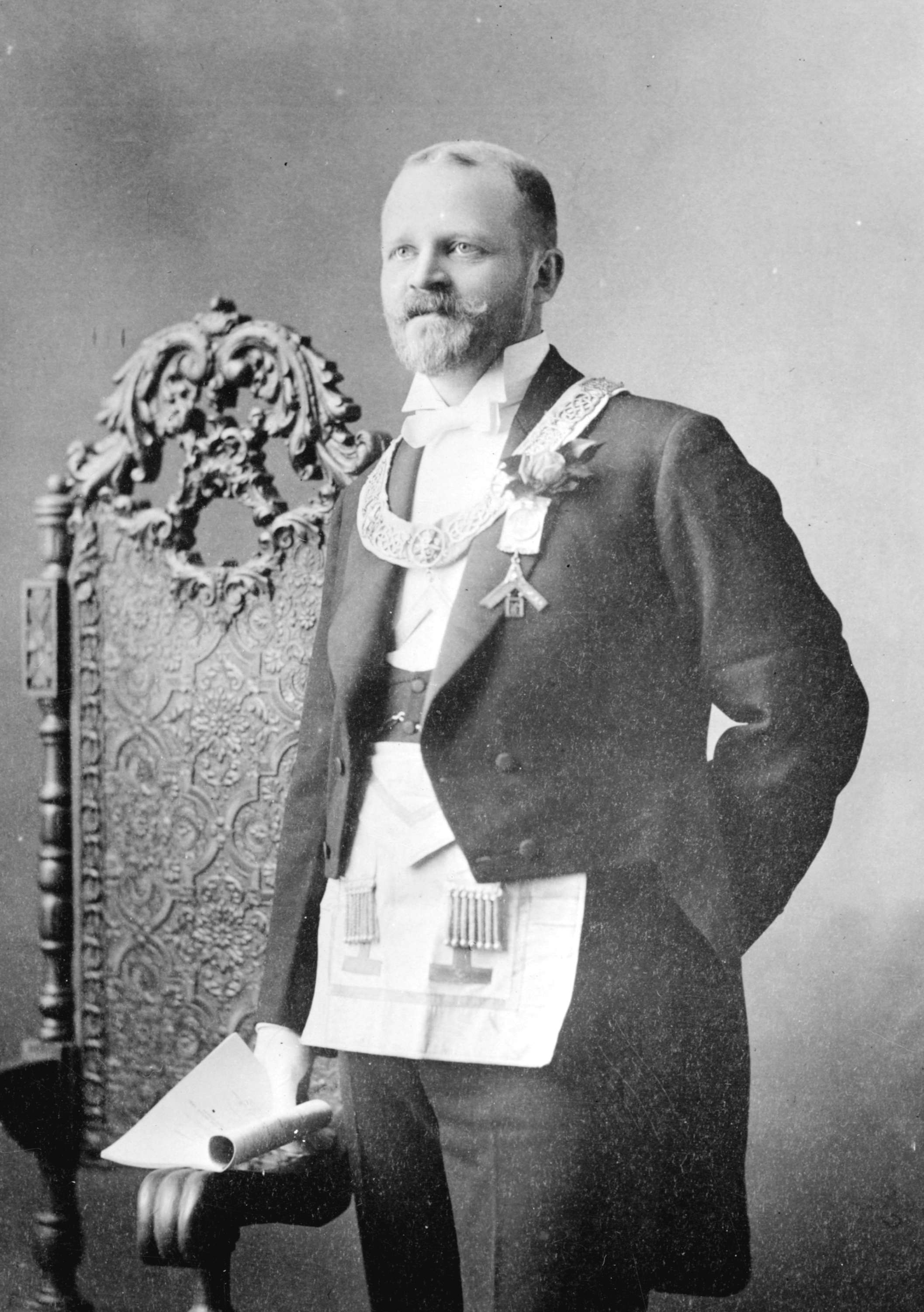 Charles E. Tisdall, photographed at Cascade Masonic Lodge no. 12